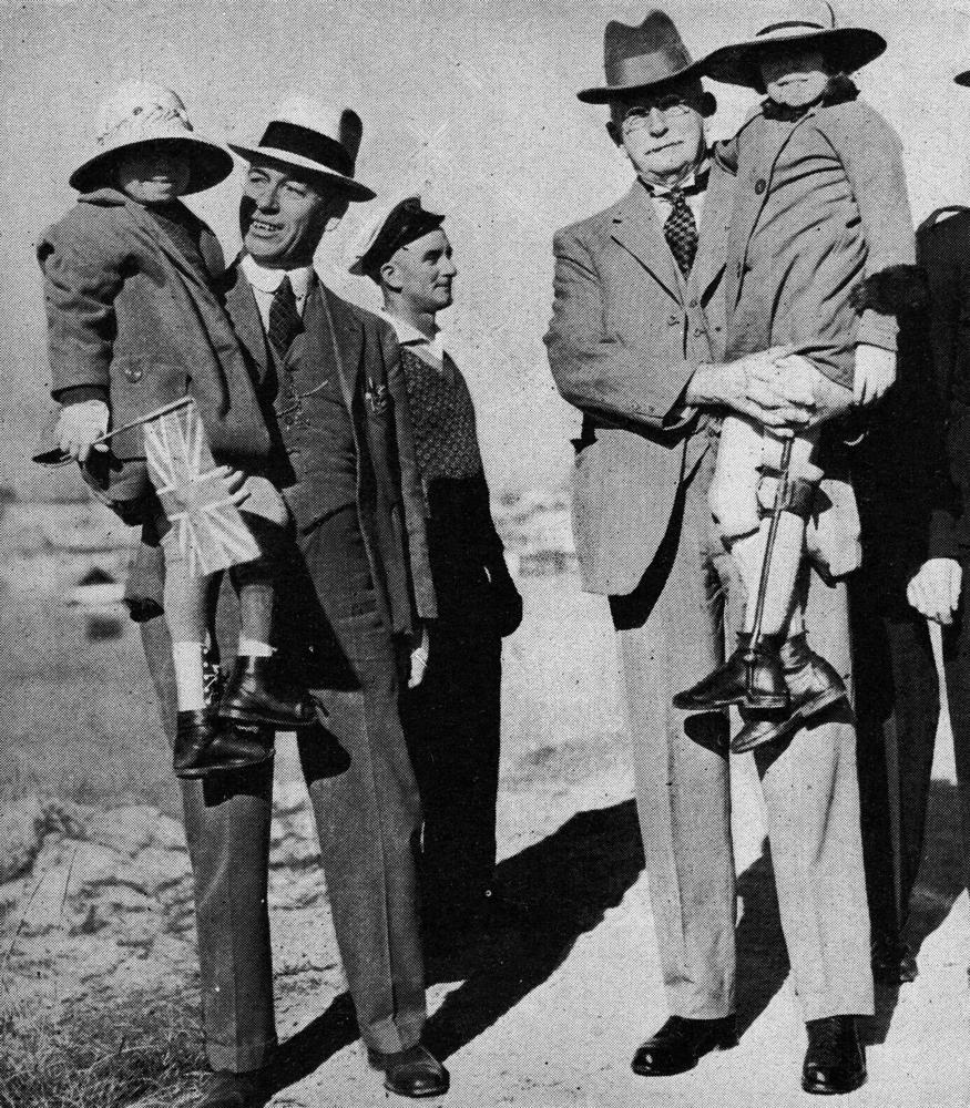 George Marchant on the right, with Home Secretary Mr Hanlon, 1935. Both men are pictured with two of the crippled children from Montrose, Mr Marchant's former residence, which he gave as a home for crippled children. (Description supplied with photograph).